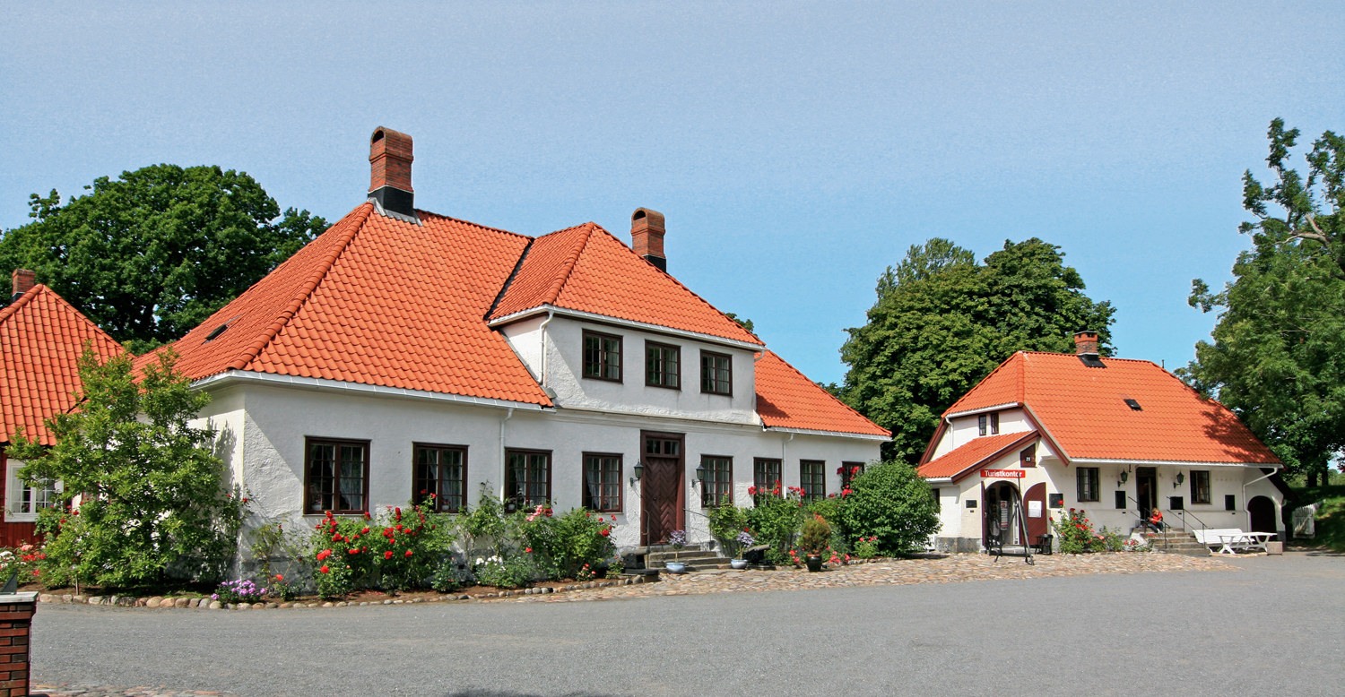 Fredriksvern naval yard, Stavern, Norway: The commandant's residence (left) and guardroom (right).